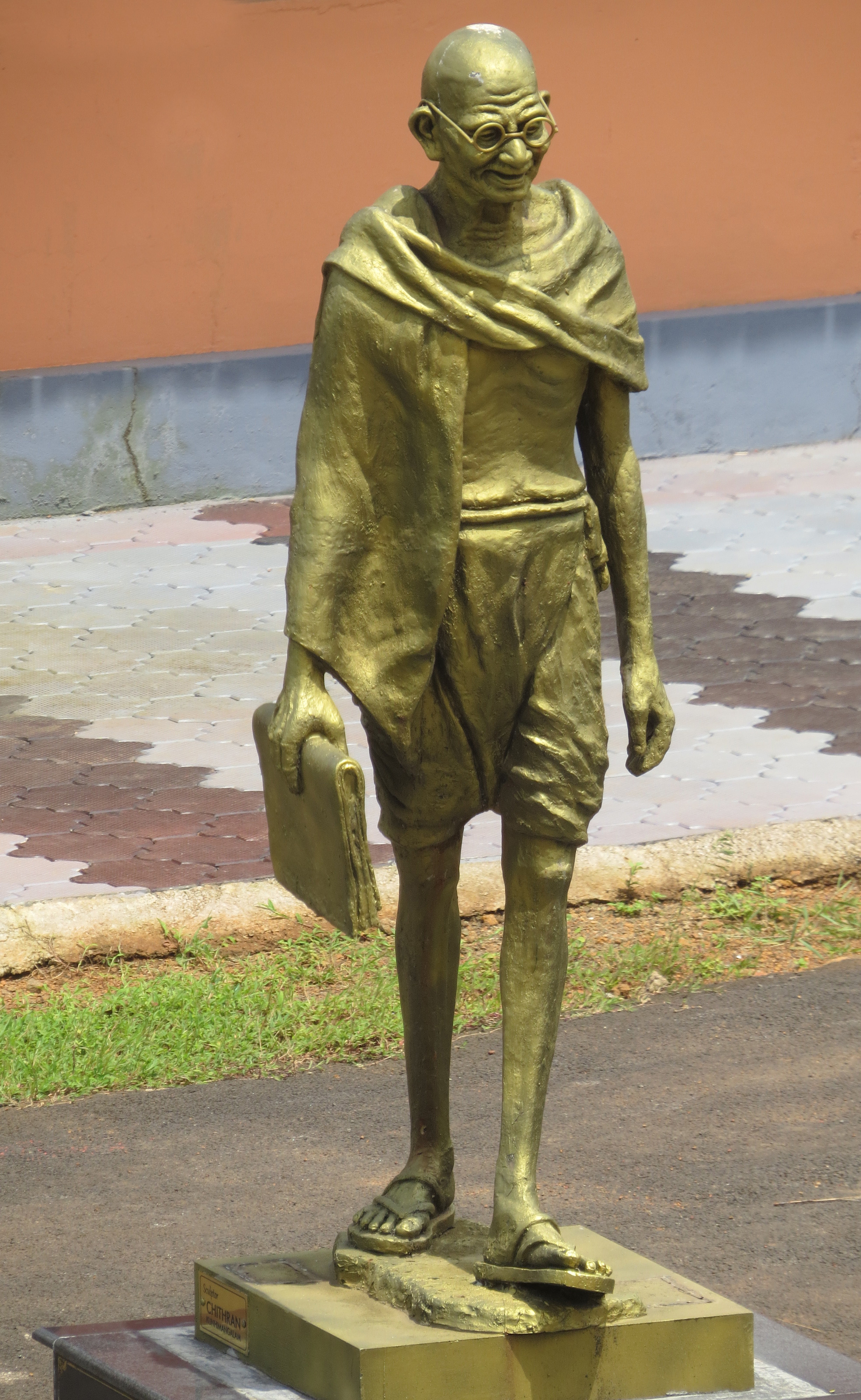 Statue of Mahatma Gandhi at Mahatma Gandhi College Iritty